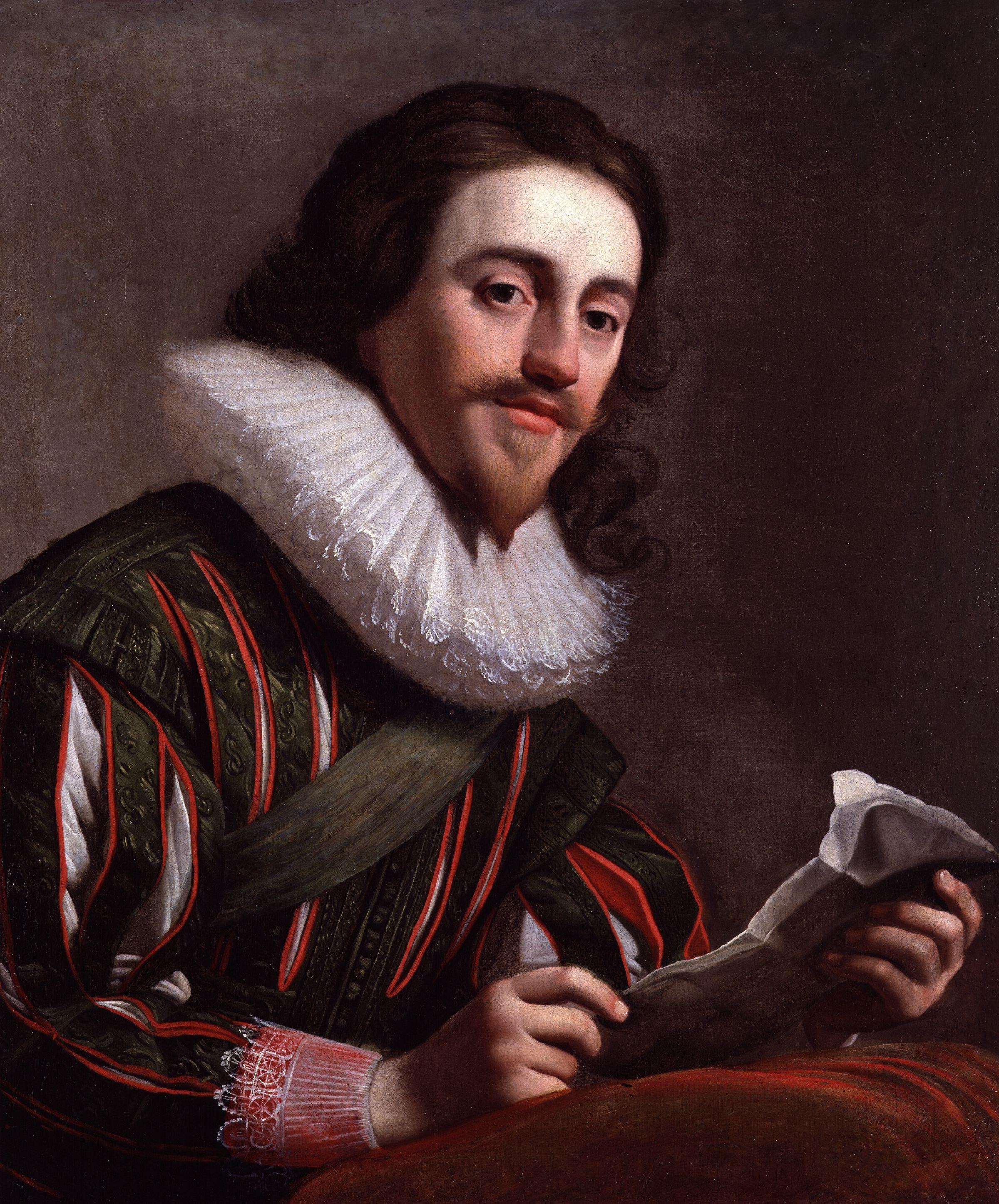 All images in this batch have been confirmed as author died before 1939 according to the official death date listed by the NPG.